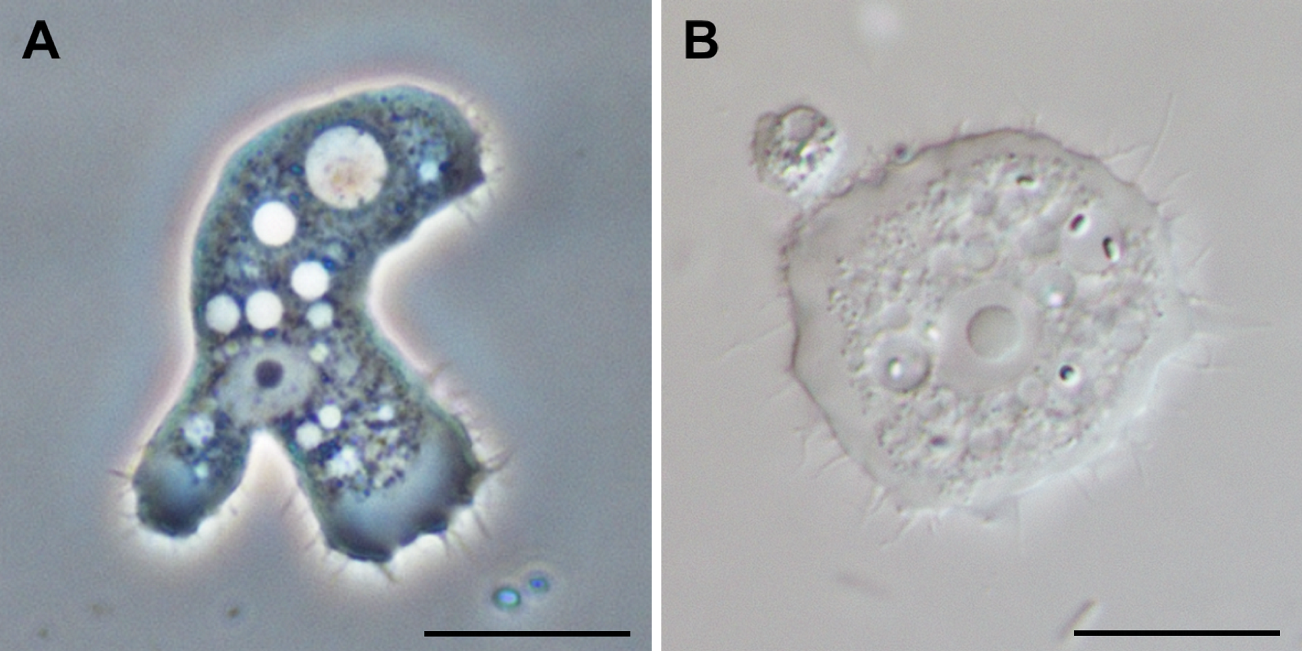 Figure 3 of published paper. Acanthamoeba trophozoites with the characteristic acanthopodia (A) in phase contrast, (B) in bright field microscopy. Scale bar: 10 μm. Originals.